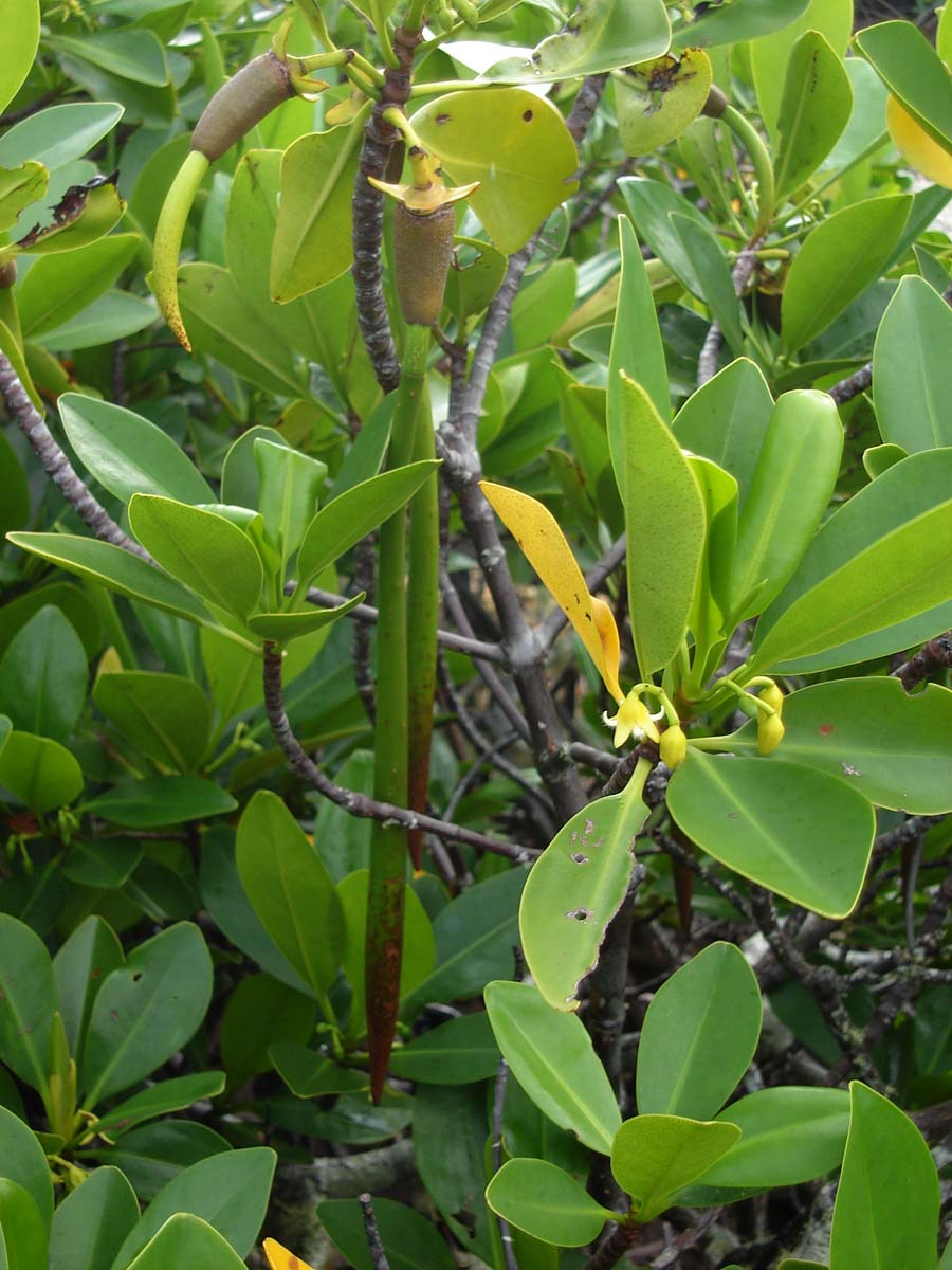 Rhizophora mangle (tongolei) in Tonga; bud, flower, fruit, propagule